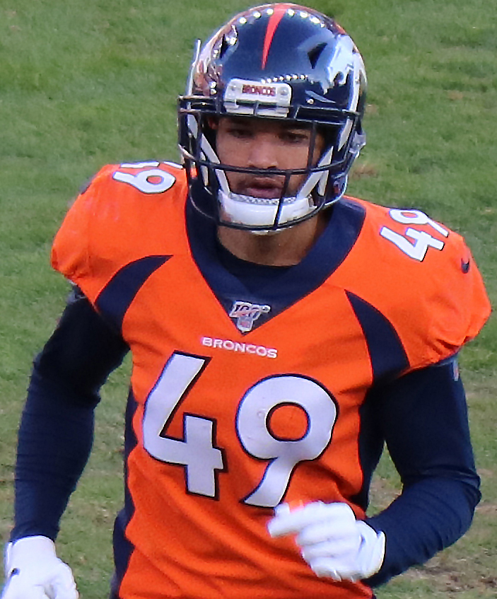 Alijah Holder, a National Football League player.